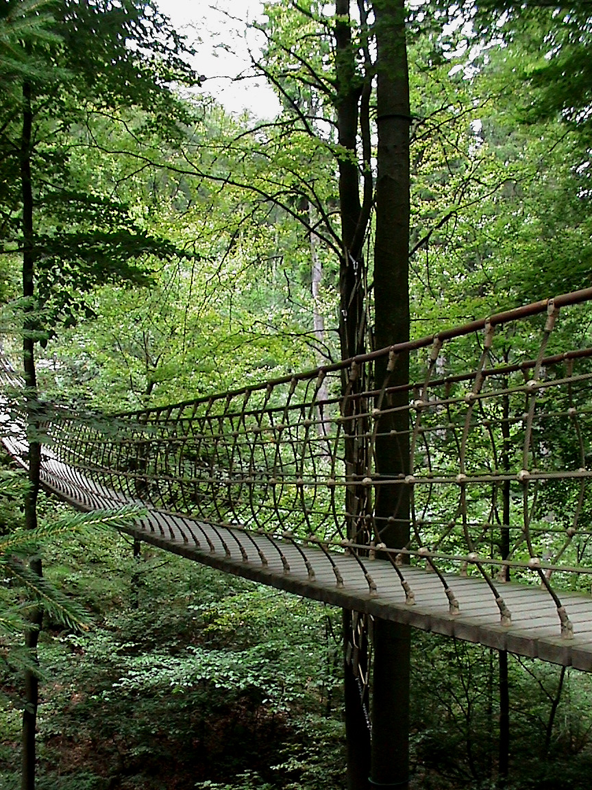 Rothaarsteig, chain bridge